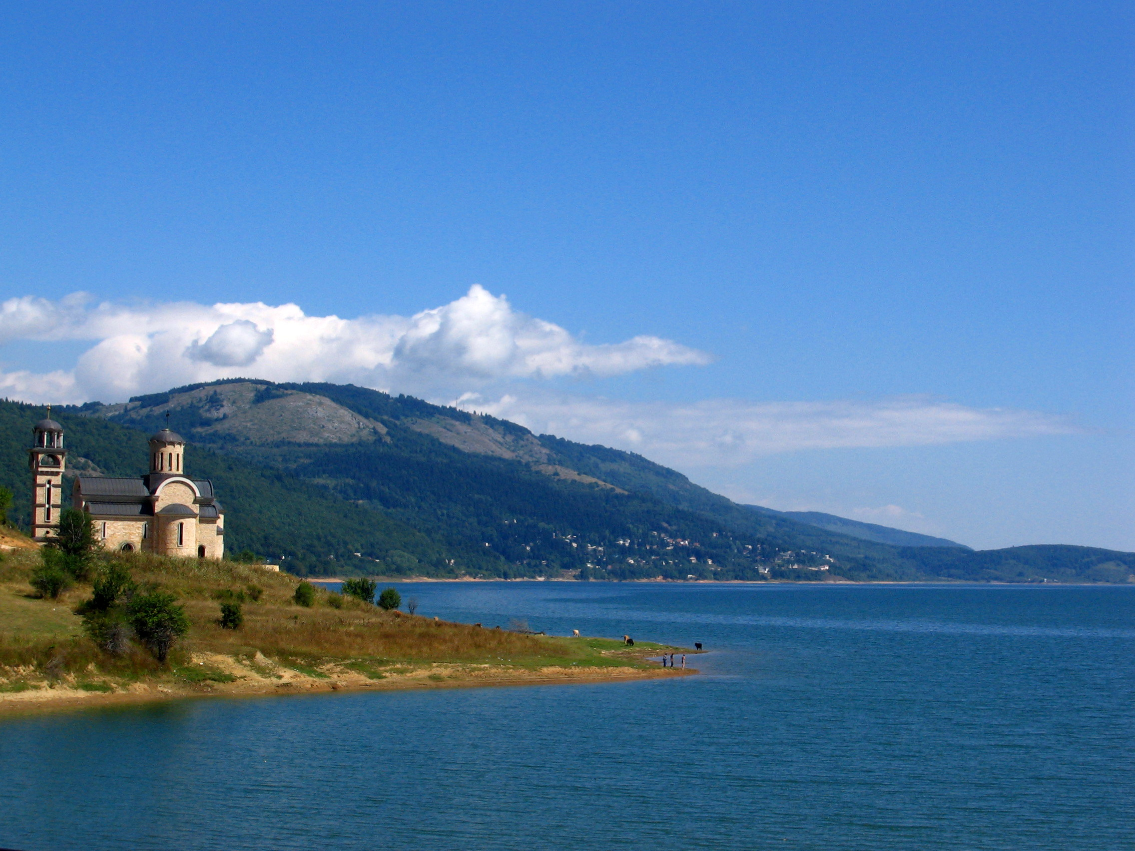 Lake Mavrovo, from near the south-west corner, looking north towards Mavrovi Anovi.